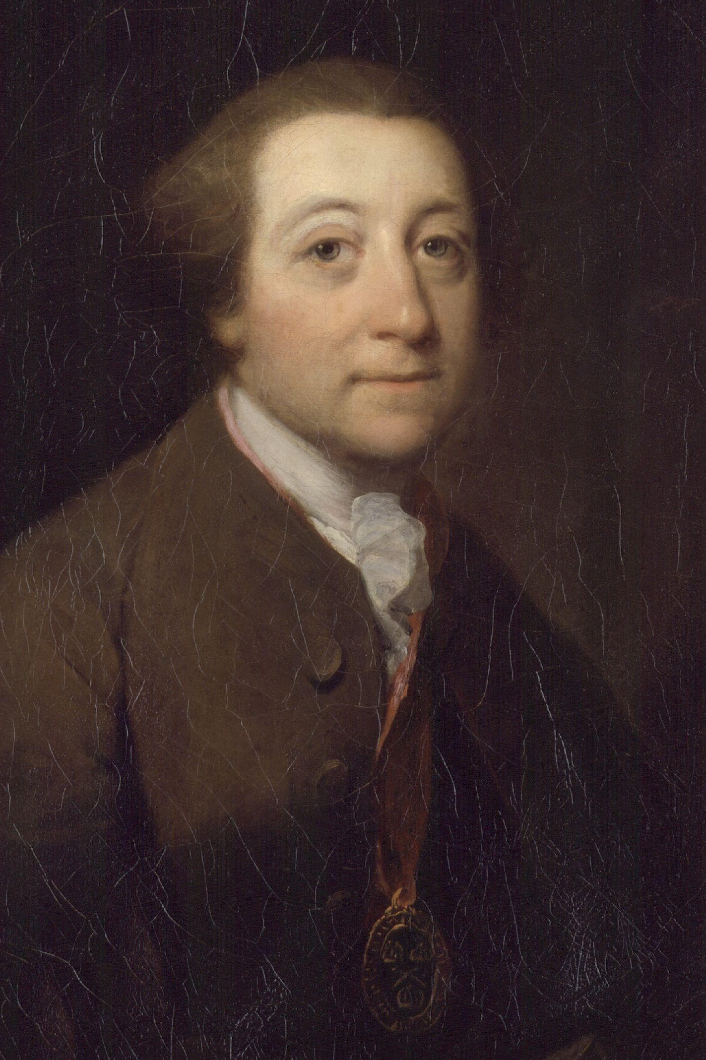 William Whitehead, by Benjamin Wilson (died 1788). All images in this batch have been confirmed as author died before 1939 according to the official death date listed by the NPG.